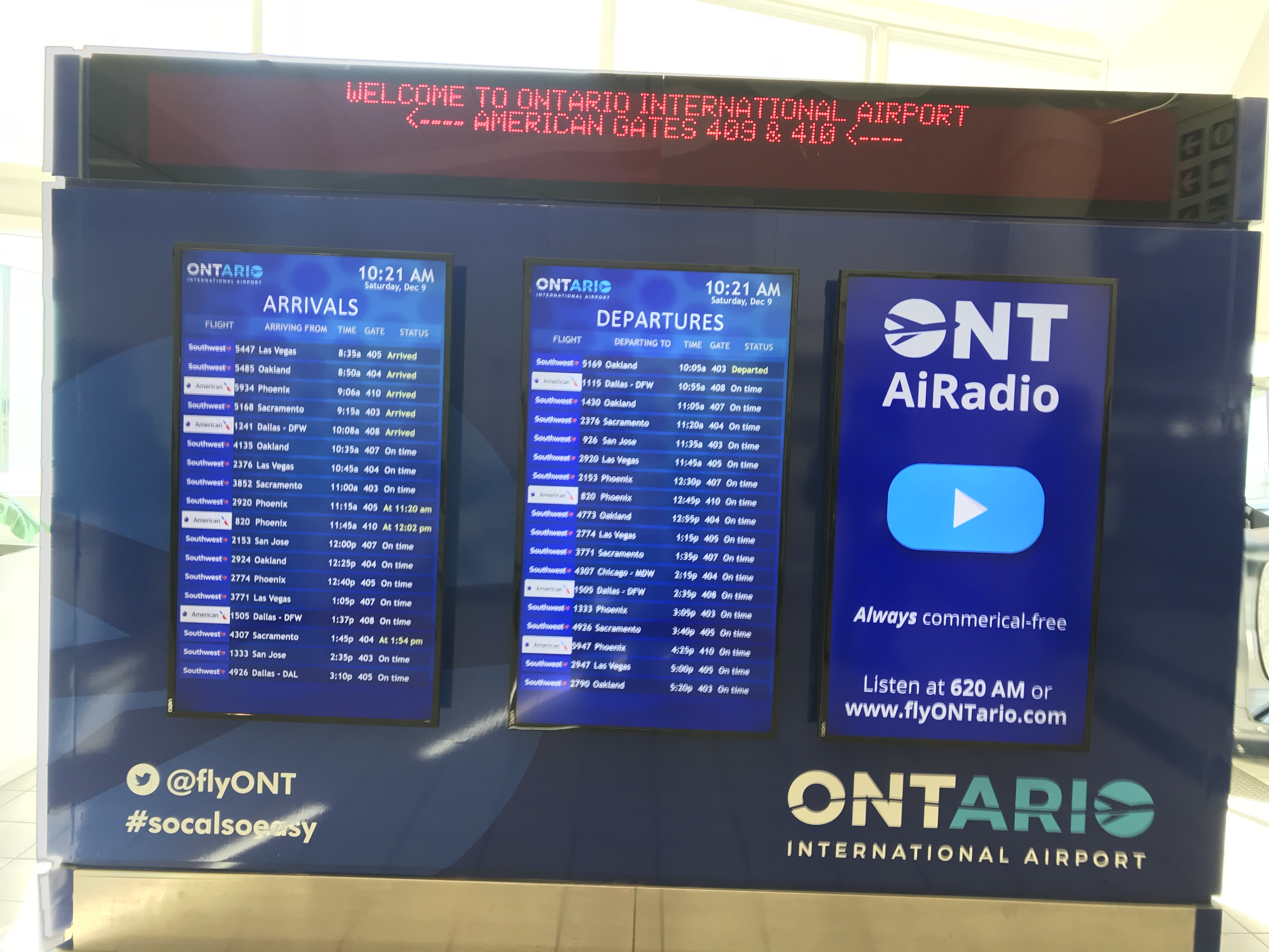 中文（香港）: Arrived and Departure LCD Display at ONT